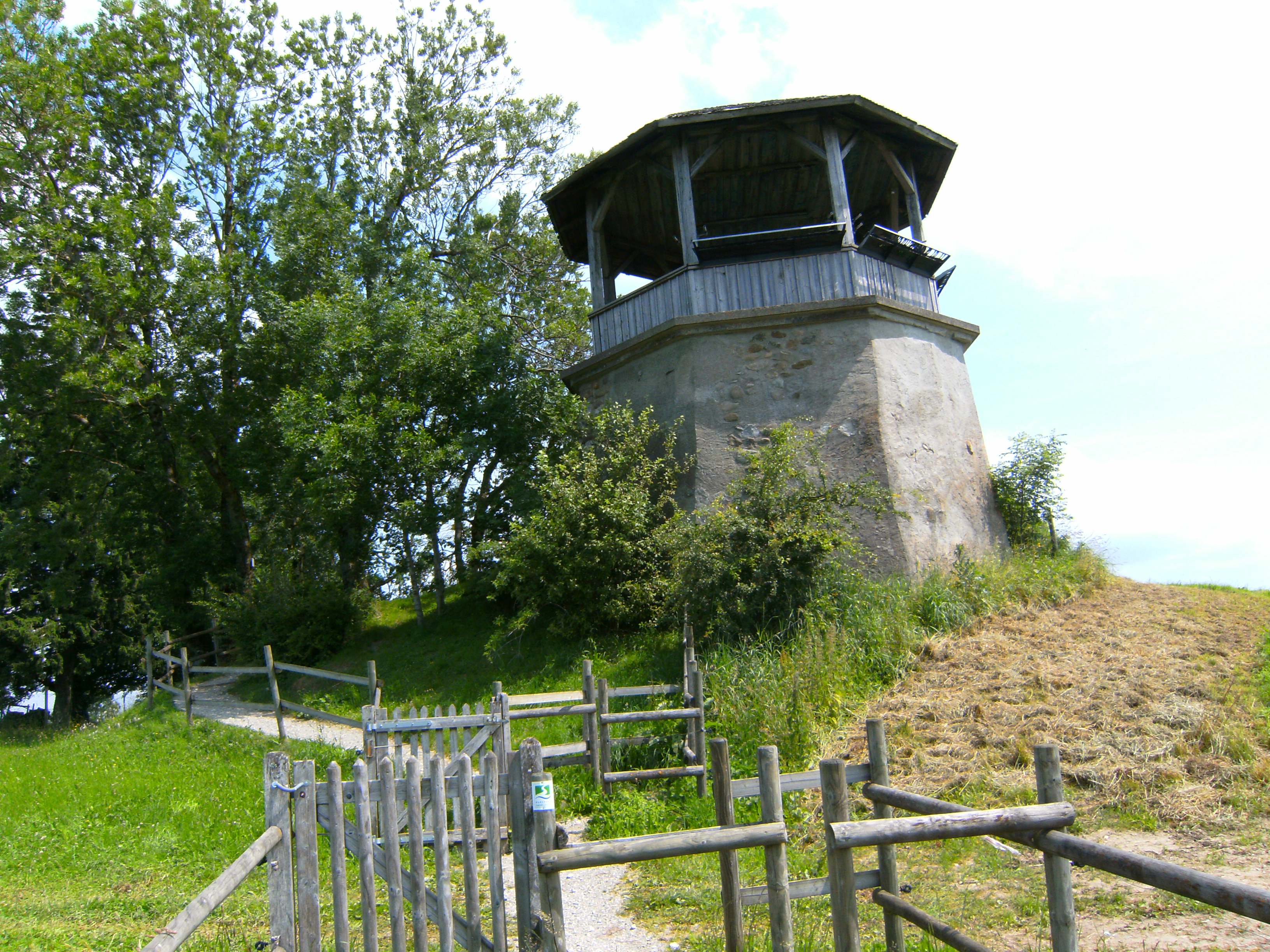 Viewpoint at Höchsten hill in Germany, part of the path of Swuabian-alemannic dialects.